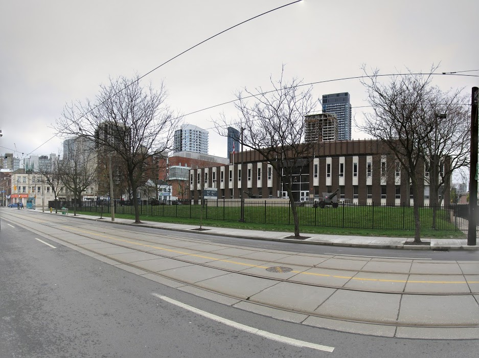 Panorama_of_Moss_Park_Armoury,_2017_05_06.jpg